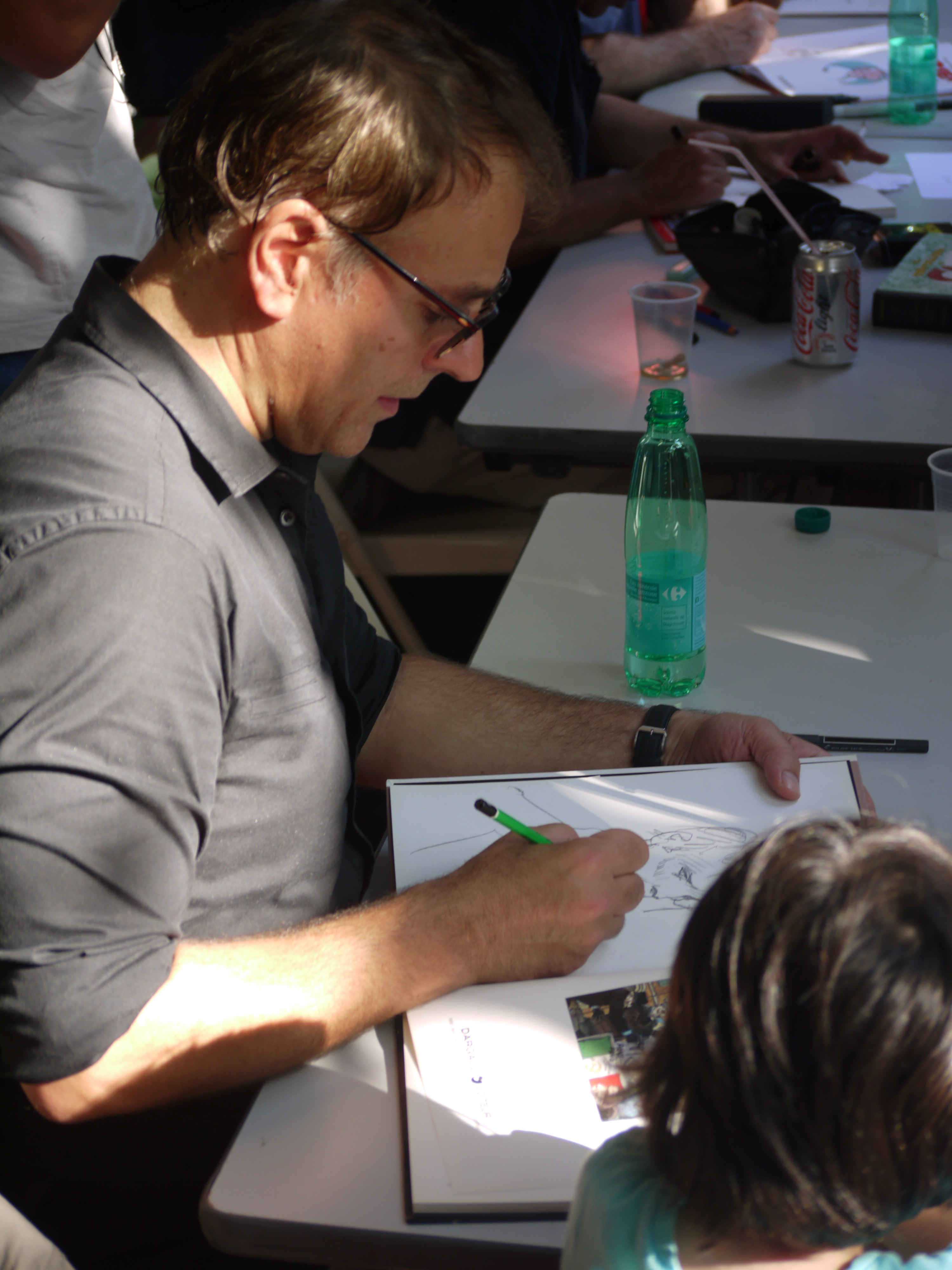 Photograph taken during the 2009 edition of the Comic Strip Festival of Sollies Ville in France. - Google Maps - Google Earth